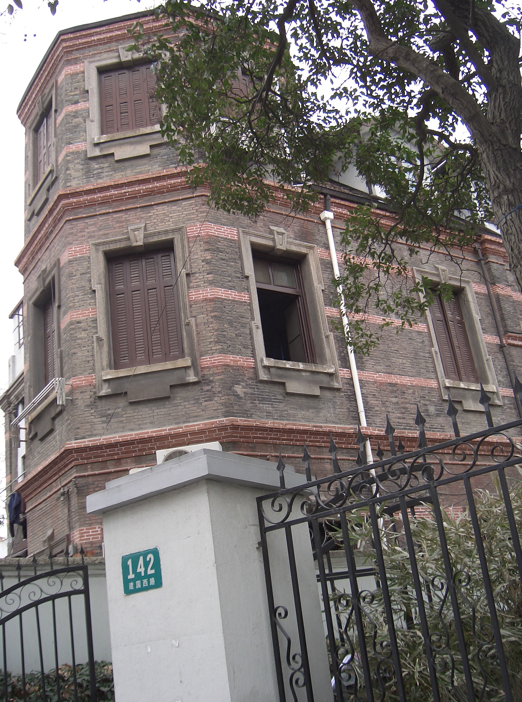 An example of the French architecture (see the window shutters) still visible in the French concession area of Shanghai, China.